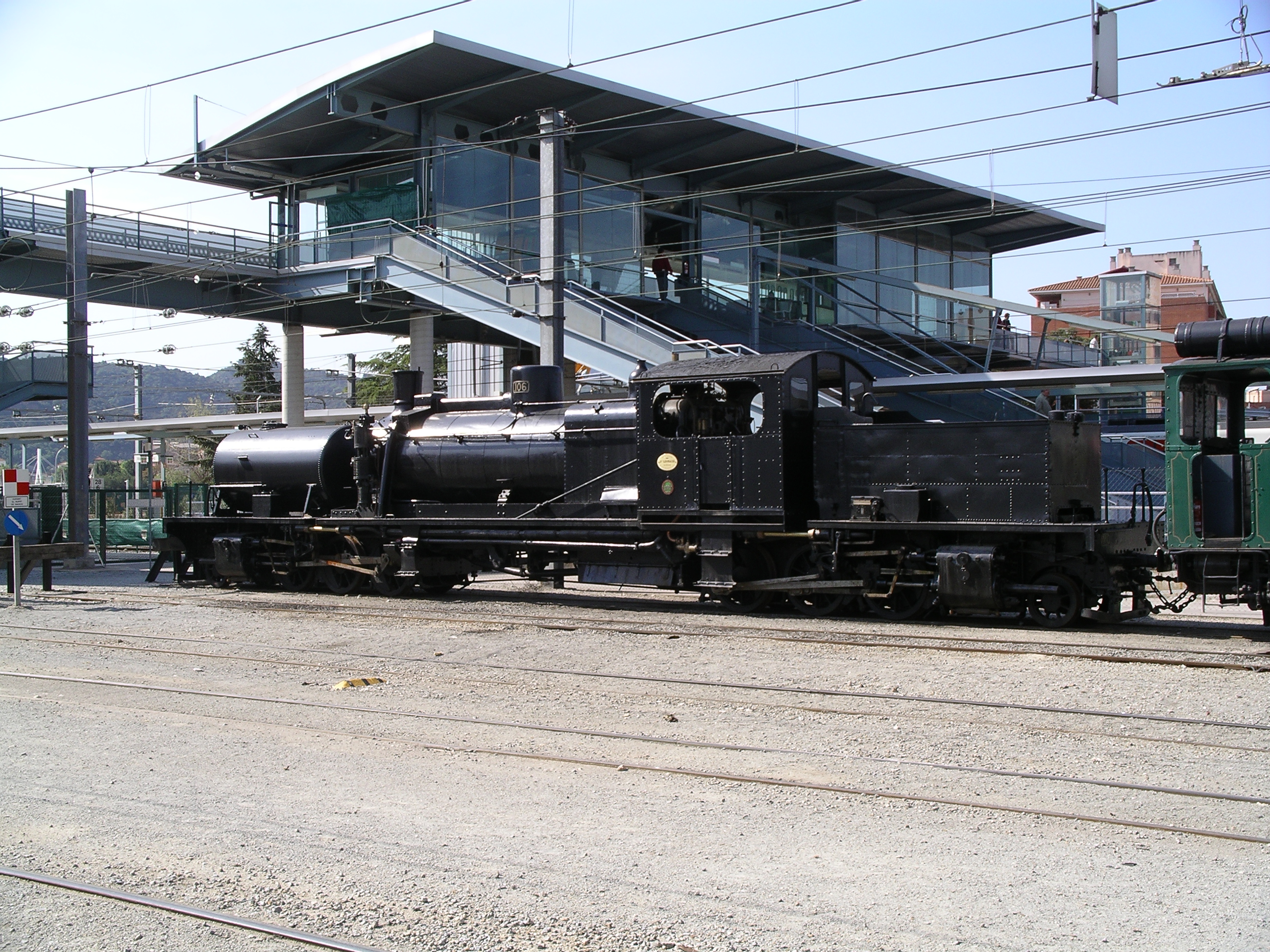 Railway station Martorell-Enllac in Catalonia,Spain with steam-engine MO 106